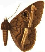 PLATE CCV.